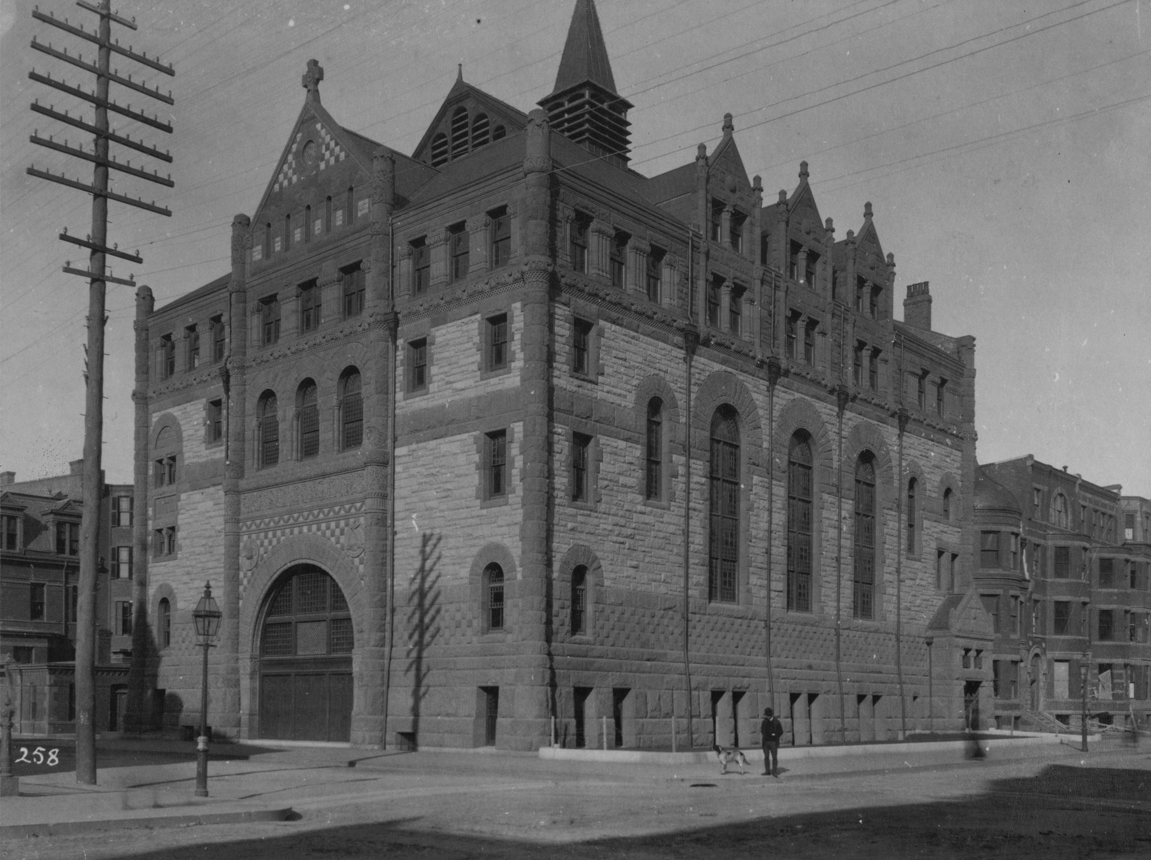 Collection: A. D. White Architectural Photographs, Cornell University Library Accession Number: 15/5/3090.00232 Title: First Spiritual Temple, Boston Architect: Henry Hobson Richardson (American, 1838-1886) Photograph date: ca. 1885-ca. 1895 Building Date: 1884-1885 Location: North and Central America: United States; Massachusetts, Boston Materials: albumen print Image: 5 3/4 x 7 5/8 in.; 14.605 x 19.3675 cm Style: Romanesque Revival Provenance: Transfer from the College of Architecture, Art and Planning Persistent URI: There are no known U.S. copyright restrictions on this image. The digital file is owned by the Cornell University Library which is making it freely available with the request that, when possible, the Library be credited as its source.